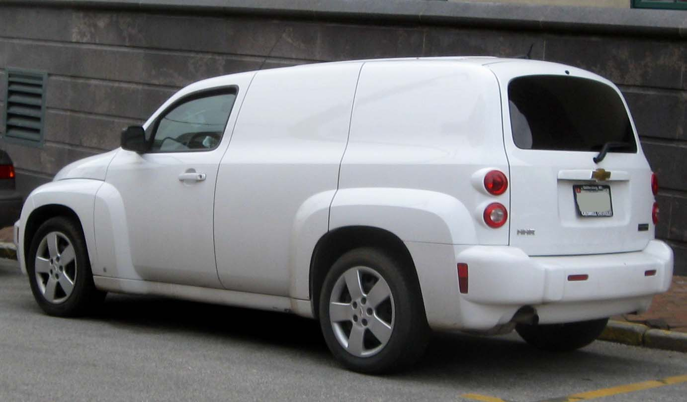 Chevrolet HHR photographed in Annapolis, Maryland, USA.